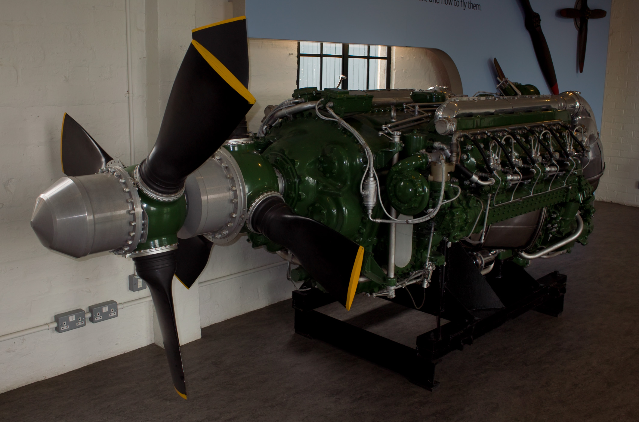 Napier Nomad I compound diesel/turboprop engine at National Museum of Flight, East Fortune, Scotland